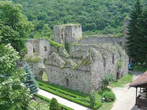 Monastery Manasia in Serbia,remaings of old refectory ([1]).